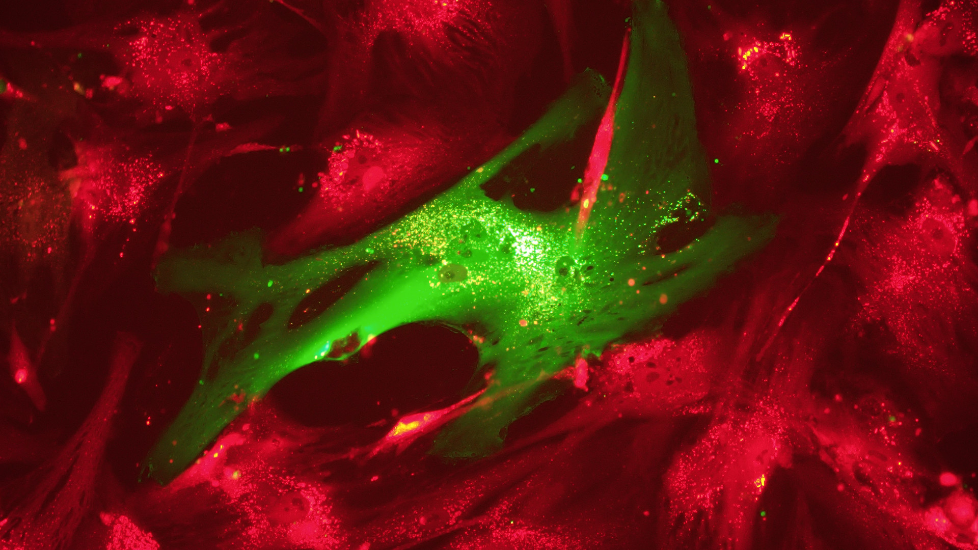 Fibroblast surrounded by the endothelial cells in the coculture of those two cell types during the angiogenesis process (formation of the new blood vessels).